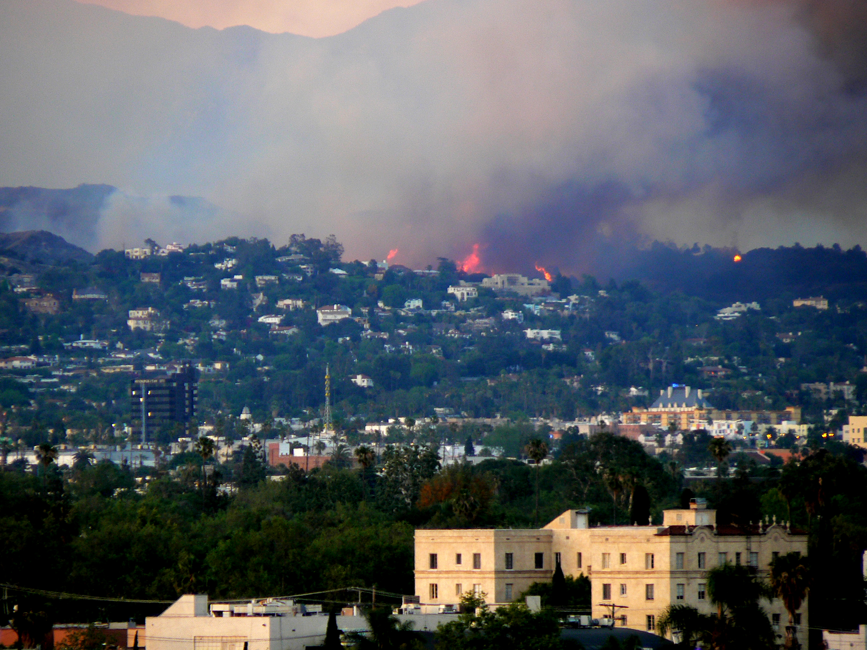 Image of Los Angeles fire near Griffith Park and the LA Zoo. Taken from tower 37 of Park LaBrea. Photo was taken on May 8th 2007.